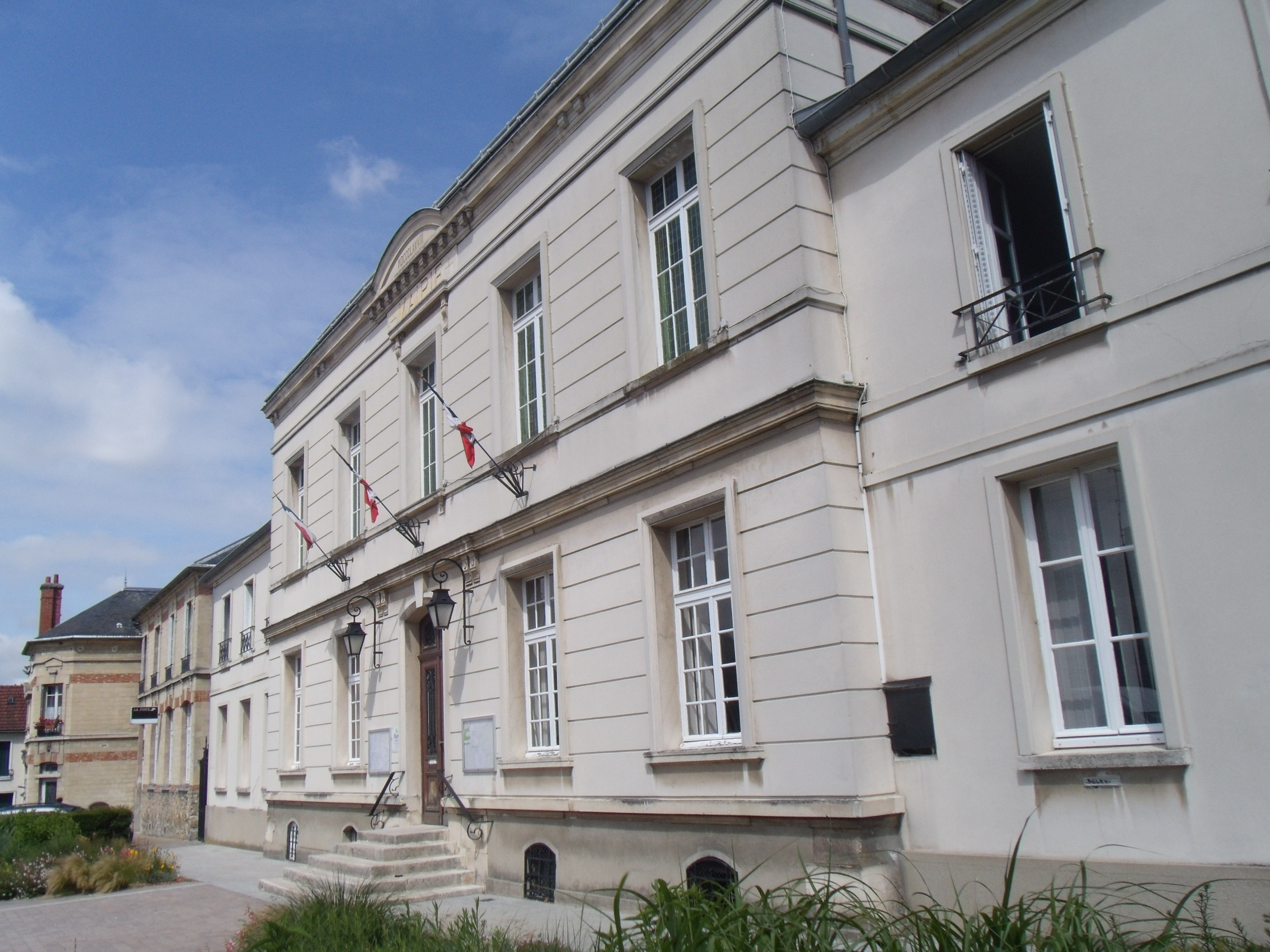 Bessancourt Town hall